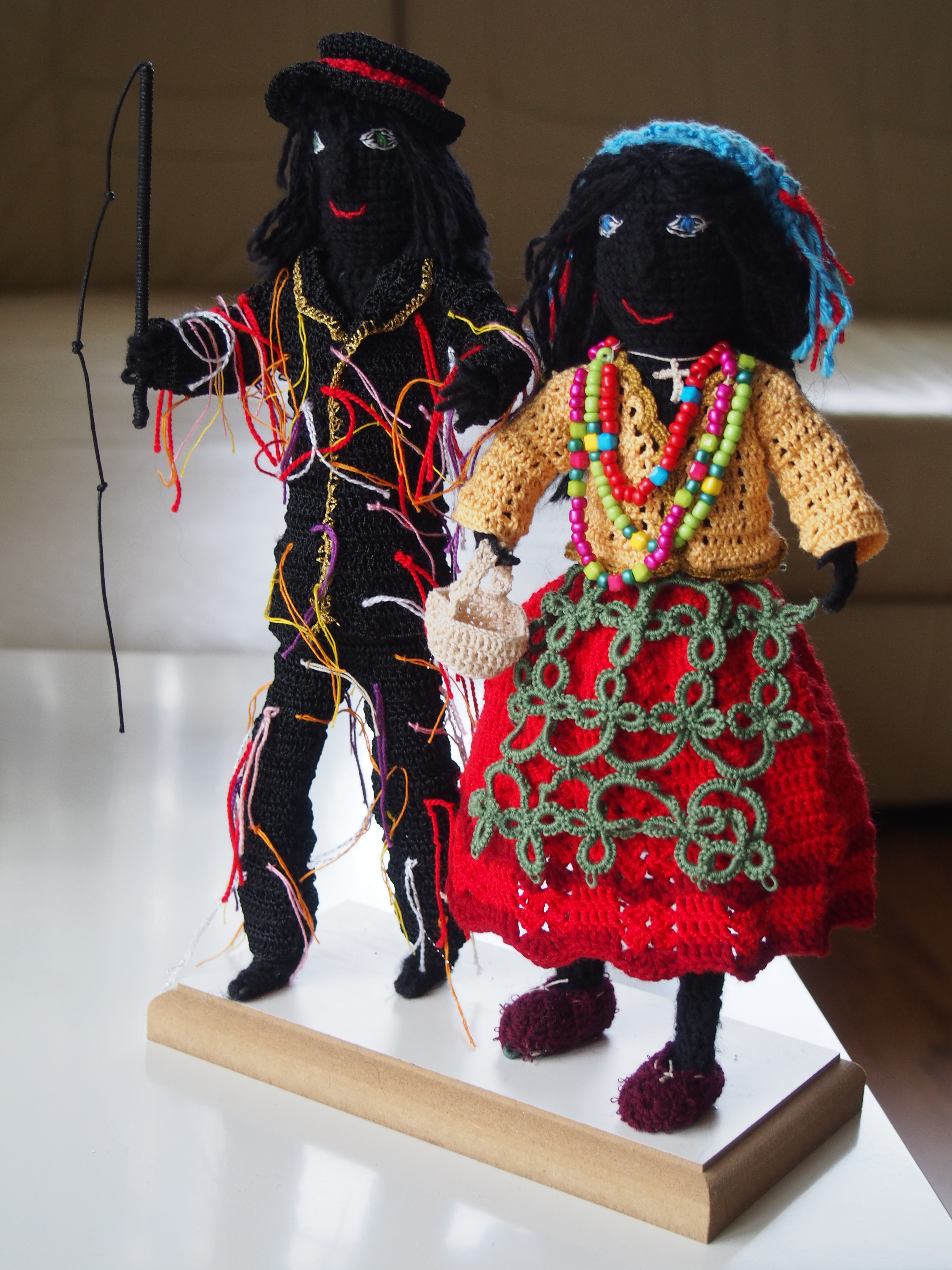 Siuda Baba, Polish folk tradition on Easter Monday, 6th April 2015, Lednica Górna, Poland. Figuers of Black Gypsy and Siuda Baba made by Bożena Czech, owned by the Association for the Support of Rural Development of Lednica Górna "Ledniczanie".